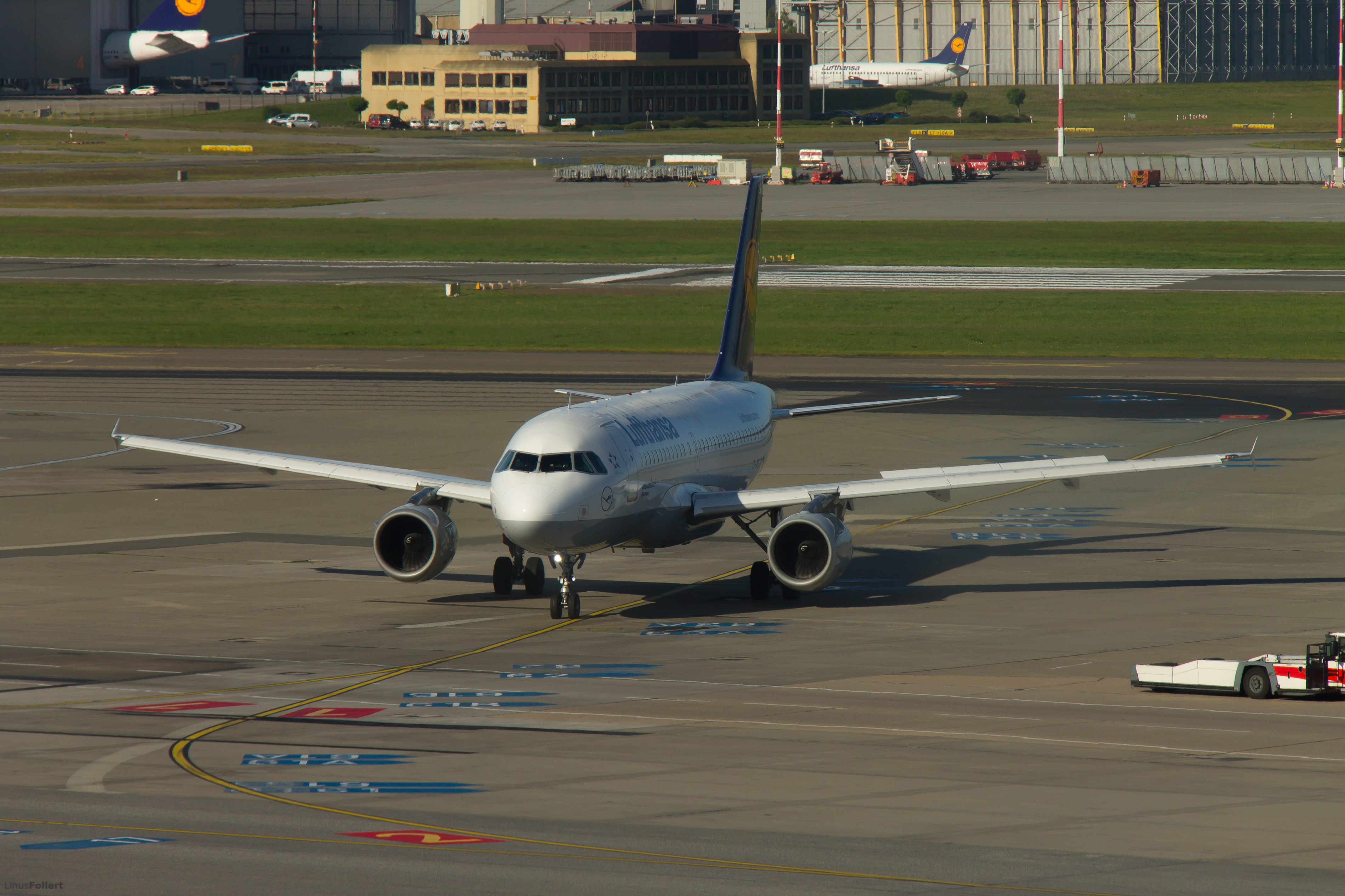 Can't see the registration